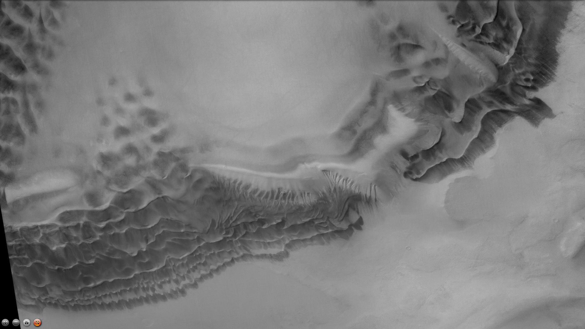 Hooke Crater showing dunes and gullies, as seen by ctx